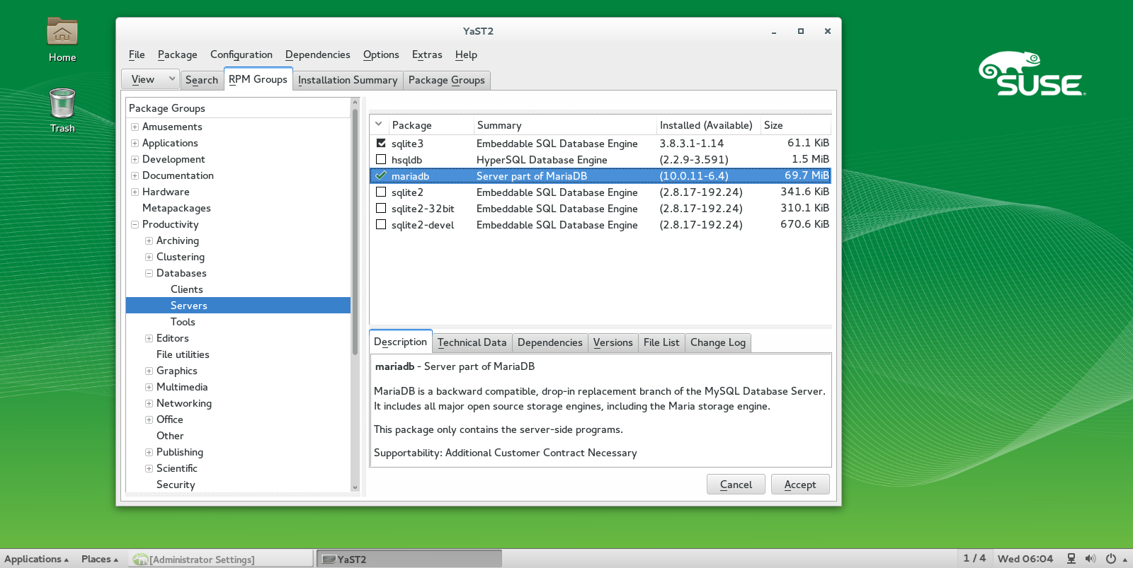 SUSE Linux Enterprise Desktop 12.0 as a Database Server